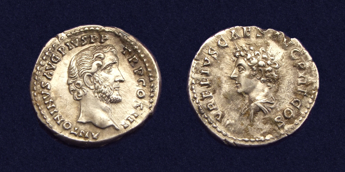 AR Denarius with portrait of Antoninus Pius on the obverse and Marcus Aurelius on the reverse, struck 140 AD. Obverse: ANTONINVS AVG PIVS PP TR P COS III, bare head right. Reverse: AVRELIVS CAES AVG PII F COS, bare head left.